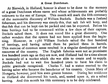 Article on William Buckels, the inventor of salt herring